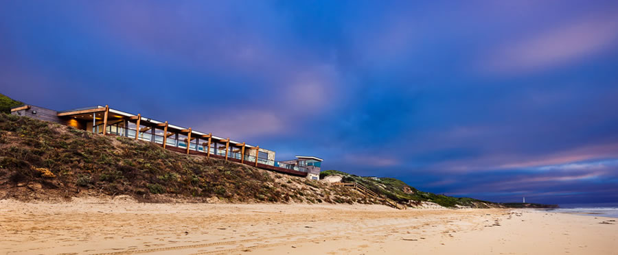 The Fairhaven Surf Life Saving Club, rebuilt in 2014